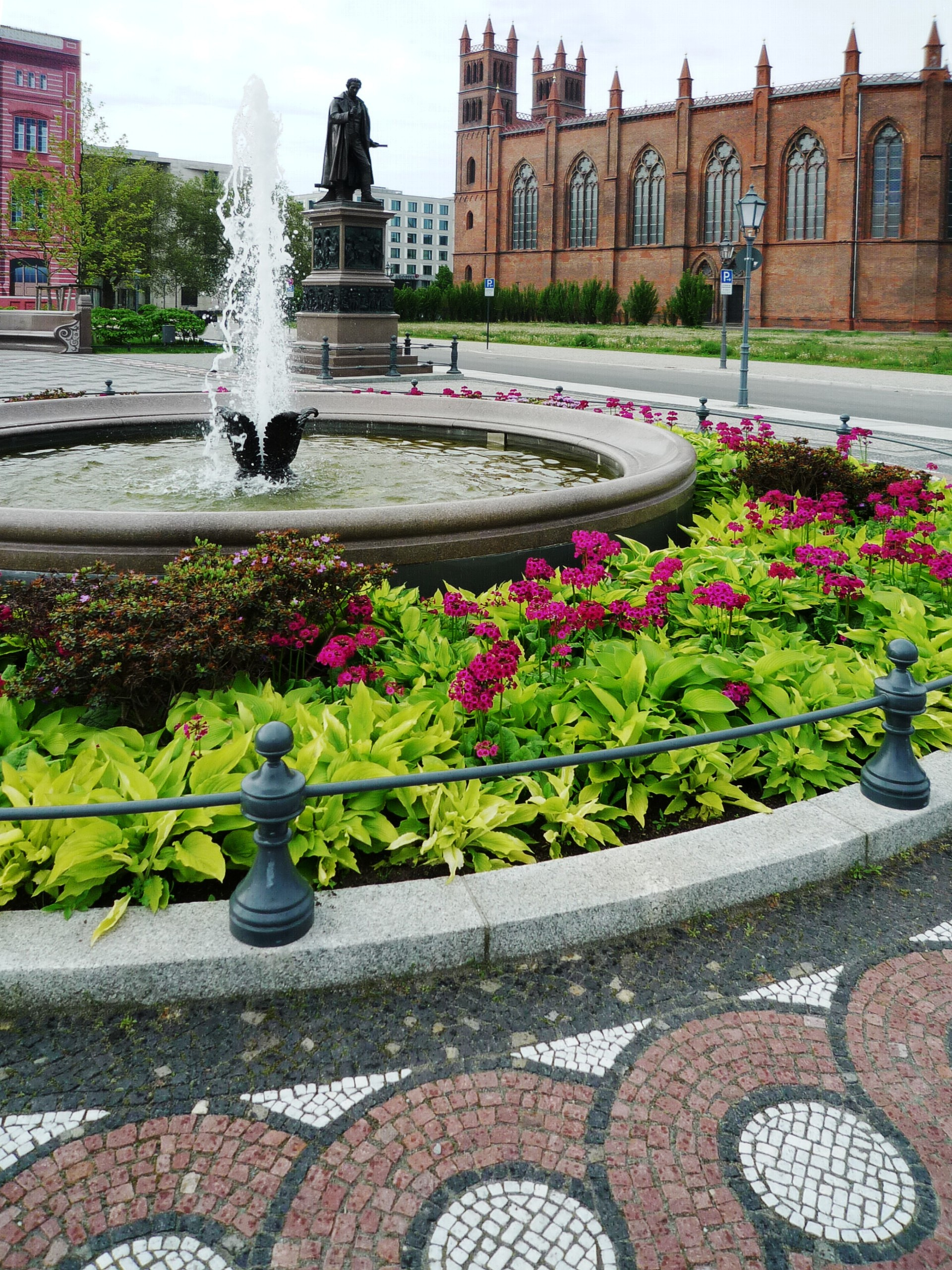 The "Schinkelplatz" in Berlin-Mitte. Partial view. In the background: the "Friedrichswerdersche Kirche", constructed by Karl Friedrich Schinkel.